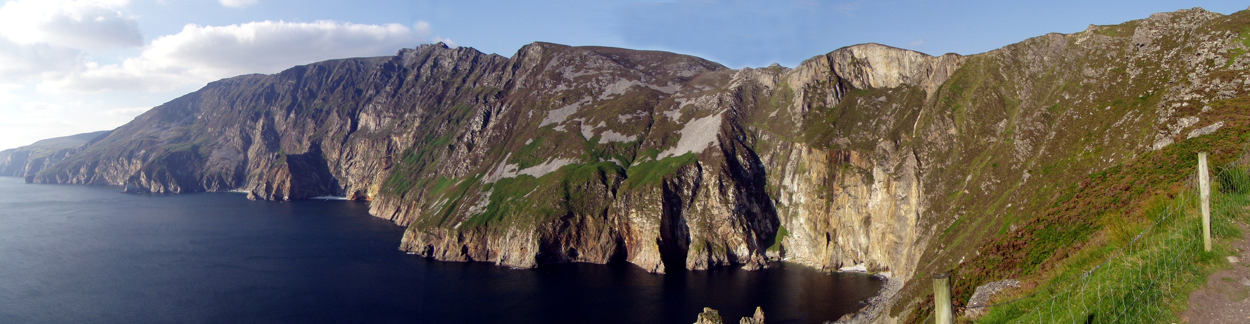 Panorama of Slieve League, County Donegal, Ireland